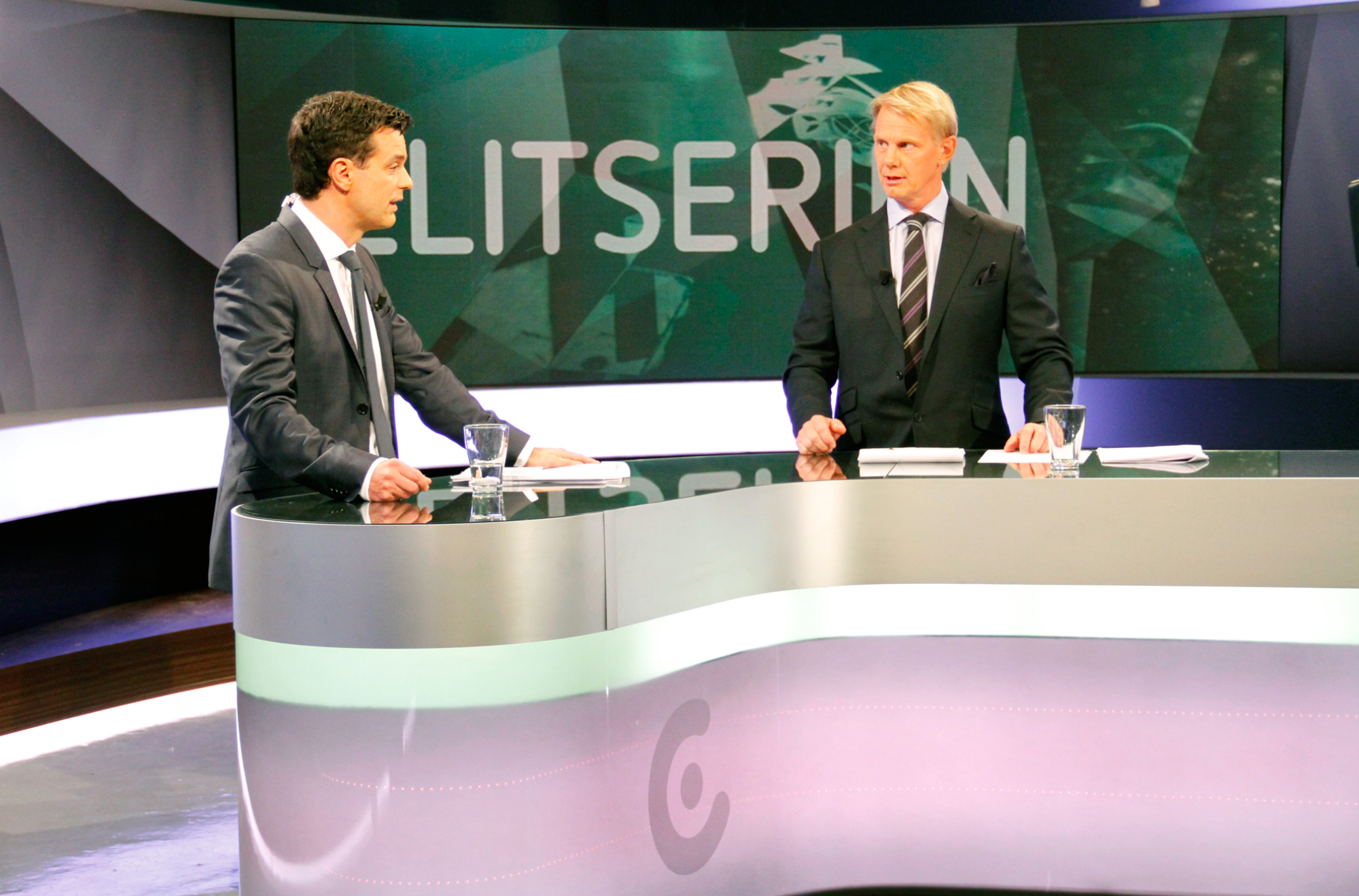 Host Tommy Åström and expert Niklas Wikegård in C More's Elitserien hockey studio.